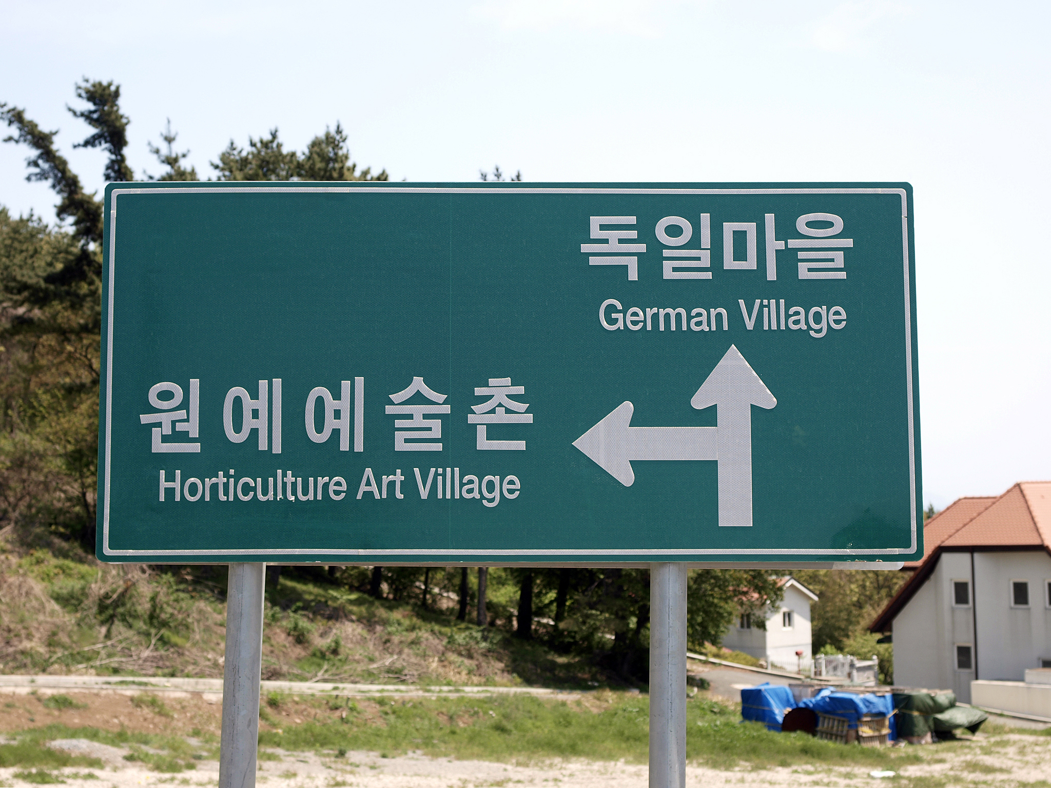 독일 마을 (Dogil Maeul), German Village, Namhae-gun, Gyeongsangnam-do, South Korea